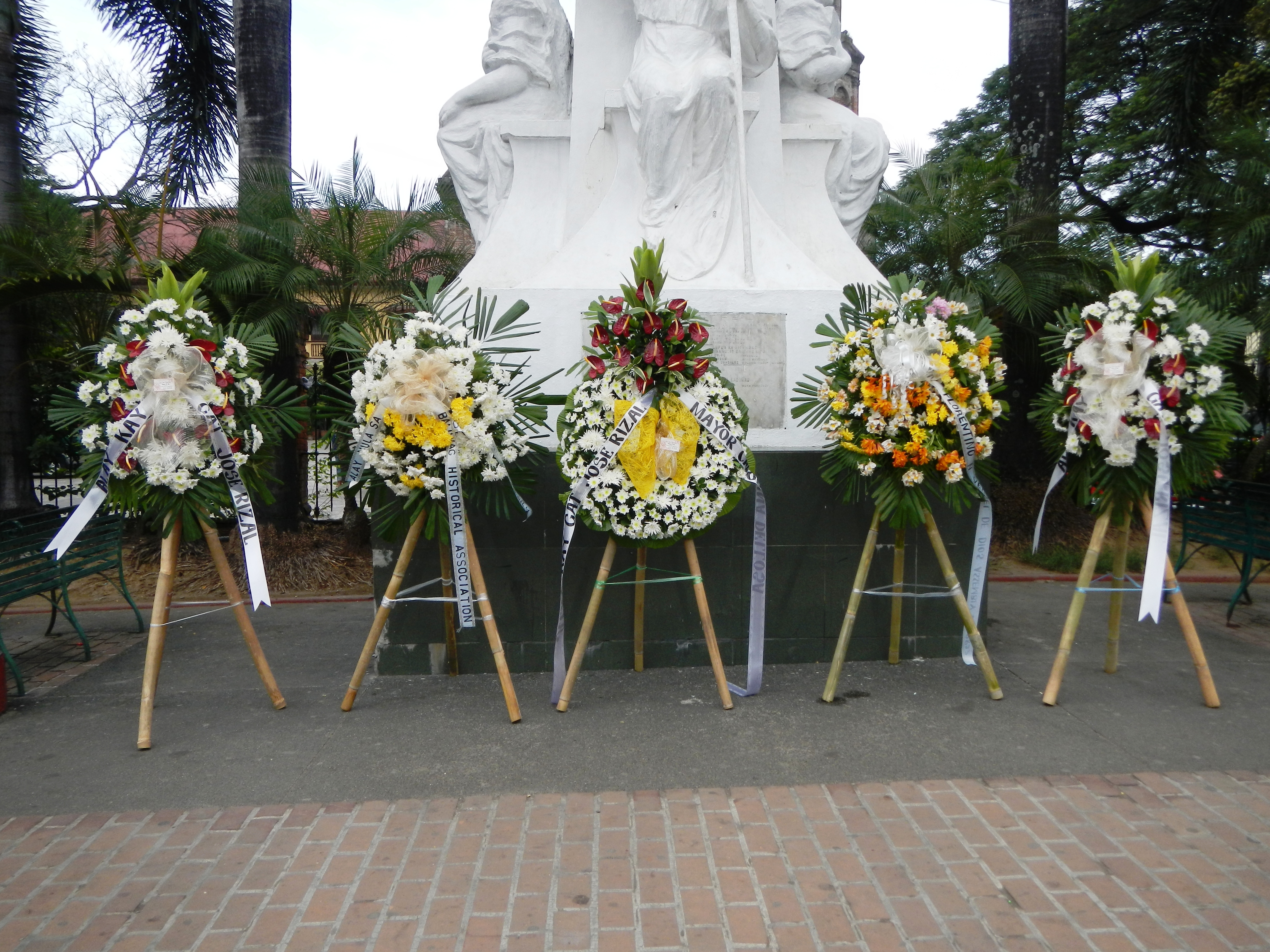 Andrés Bonifacio Wreath laying ceremony in Baliuag, Bulacan (2014, December)